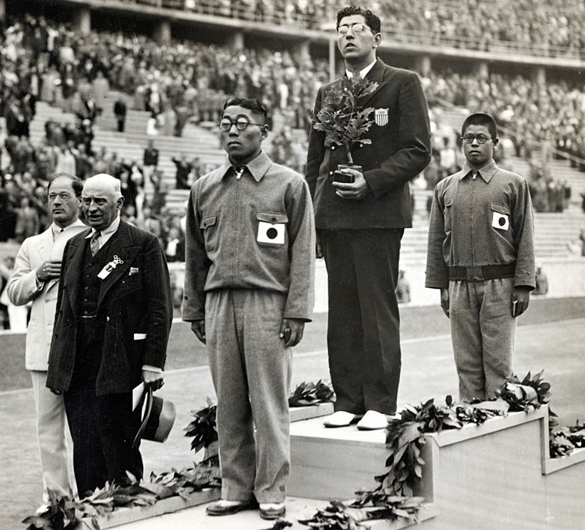 Bronze medalist Shuzo Makino of Japan, gold medalist Jack Medica of the United States, silver medalist Shumpei Uto pose on the podium during the medal ceremony for Swimming Men's 400m Freestyle during the Berlin Olympic at Swimming Stadium on August 15, 1936 in Berlin, Germany